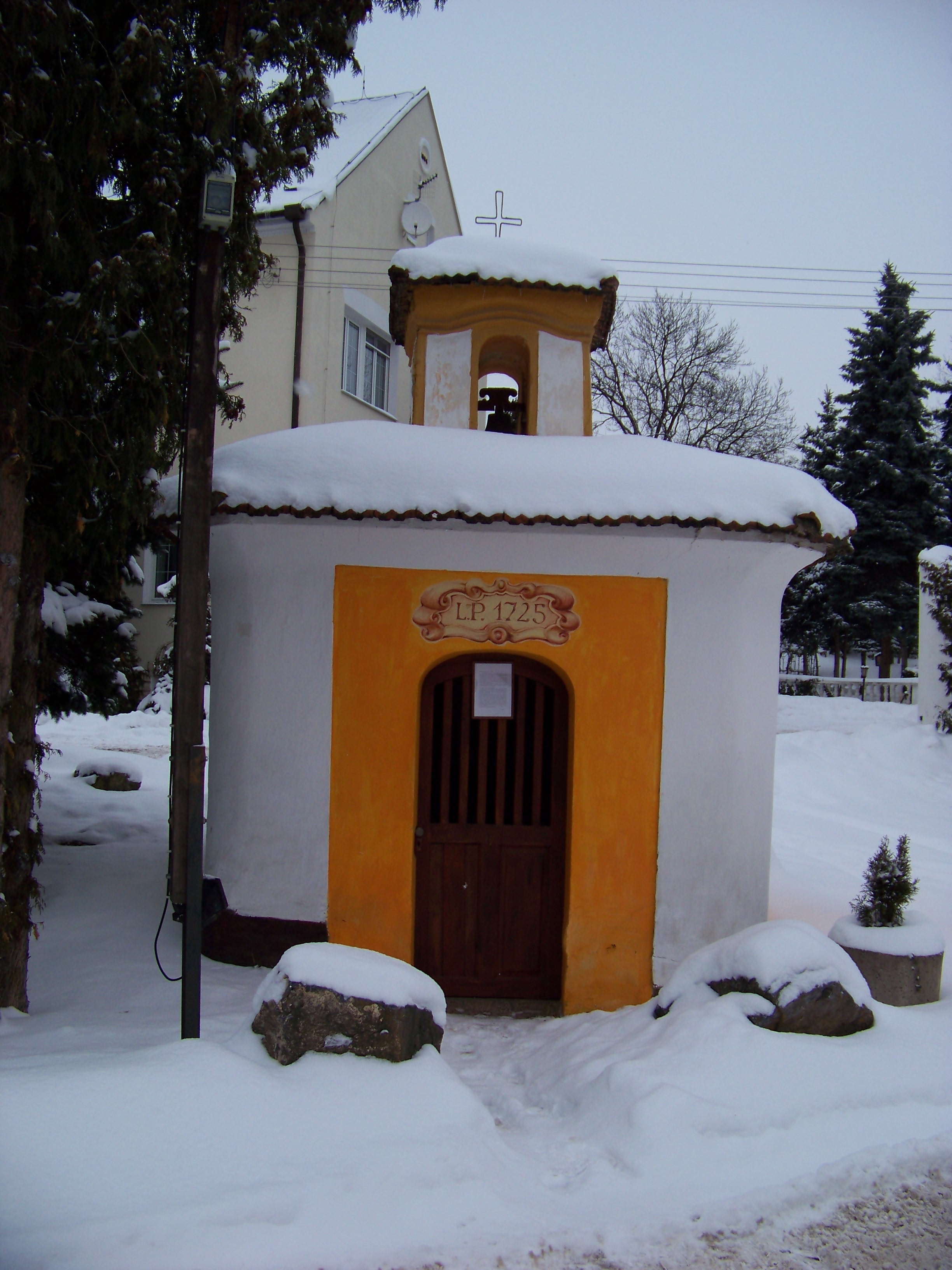 Velké Přílepy, Prague-West District, Central Bohemian Region, the Czech Republic. Roztocká street, a chapel of Virgin Mary.